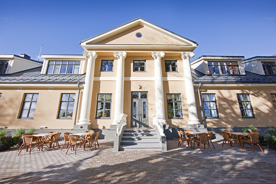 Skrundas muiža, kolonnas